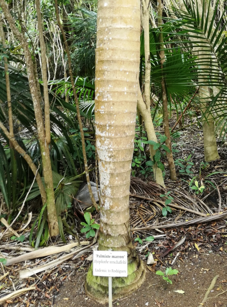 Habit of adult Hyophorbe verschaffeltii with swelling mid-way up the trunk -Grande Montagne Rodrigues